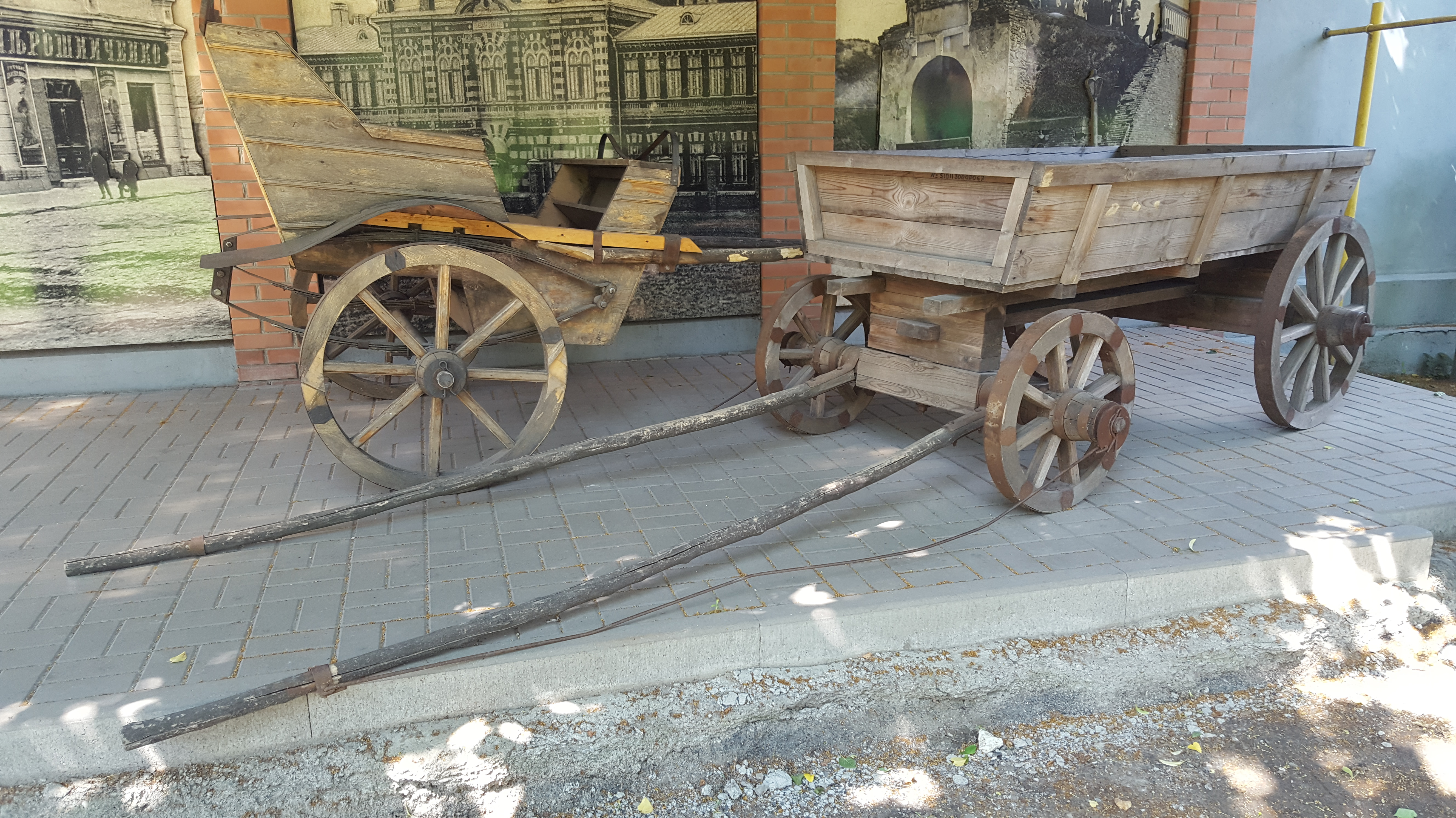 Carts in the Azov Powder Cellar Museum.